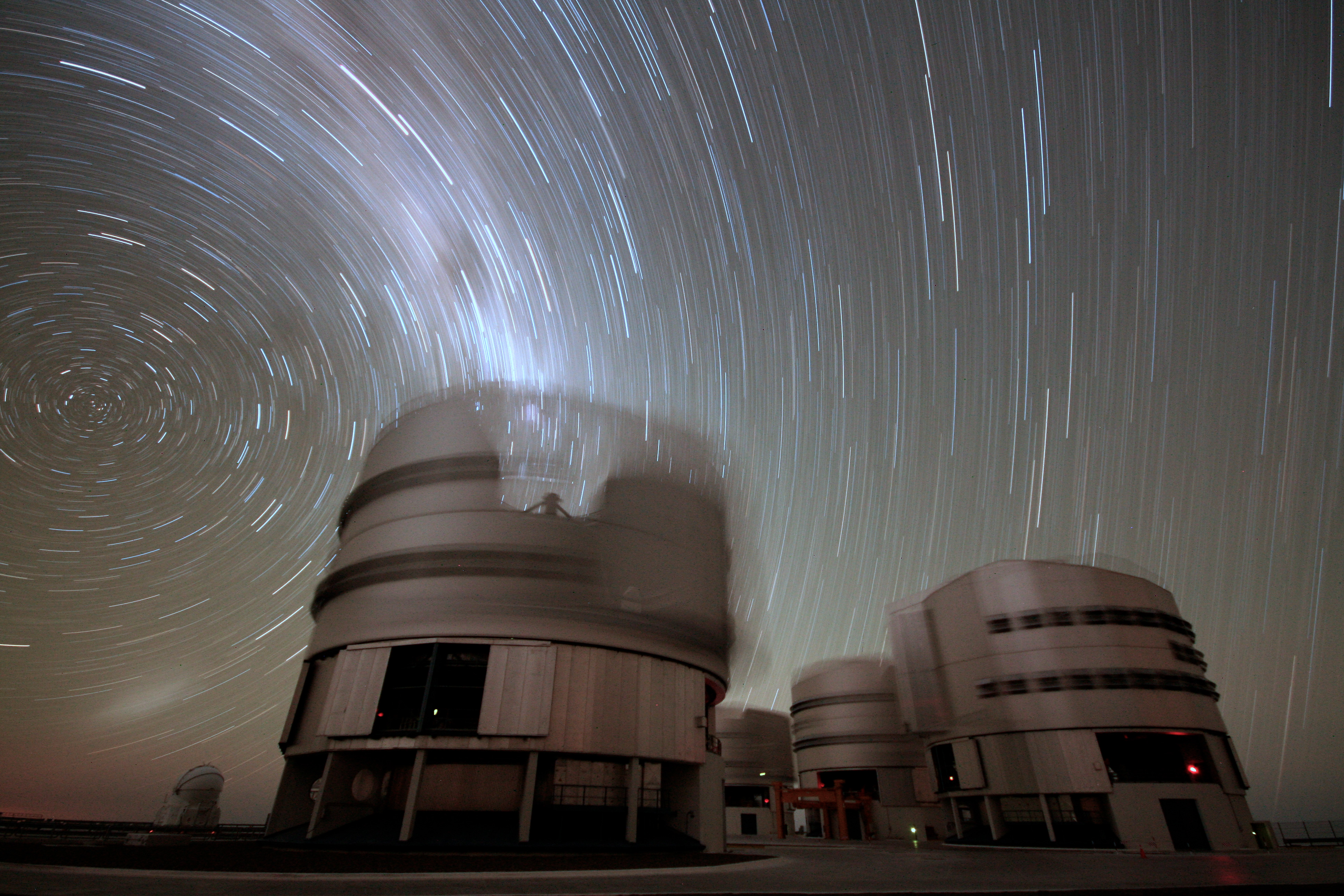 Night scene at the 2600 metre high Cerro Paranal, home of ESO’s Very Large Telescope (VLT) array. In this 45-minute exposure, taken on a dark and clear night so typical of one of the best astronomical observing sites in the world, the stars leave trails in their dance around the Celestial South Pole (left). The four VLT 8.2 m Unit Telescopes are captured during an observation session, with the long exposure resulting in noticeable movement of the domes as the telescopes move to observe different celestial objects. At the bottom left, the trail left by the Large Magellanic Cloud, one of the Milky Way’s satellite galaxies, is clearly visible. The trails left by the Milky Way and by the very bright stars forming the Southern Cross, are visible above Yepun, Unit Telescope 4, in the foreground. One of the four 1.8 metre Auxiliary Telescopes, used for the Very Large Telescope Interferometer, is seen below the Large Magellanic Cloud, dwarfed by its giant Unit Telescope companions. The image was taken in March 2008.